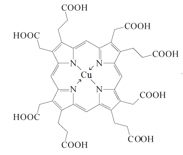 Turacin structure